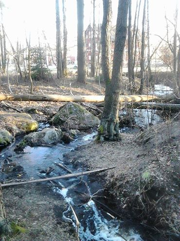 Part of the brook Sjöbyttebäcken